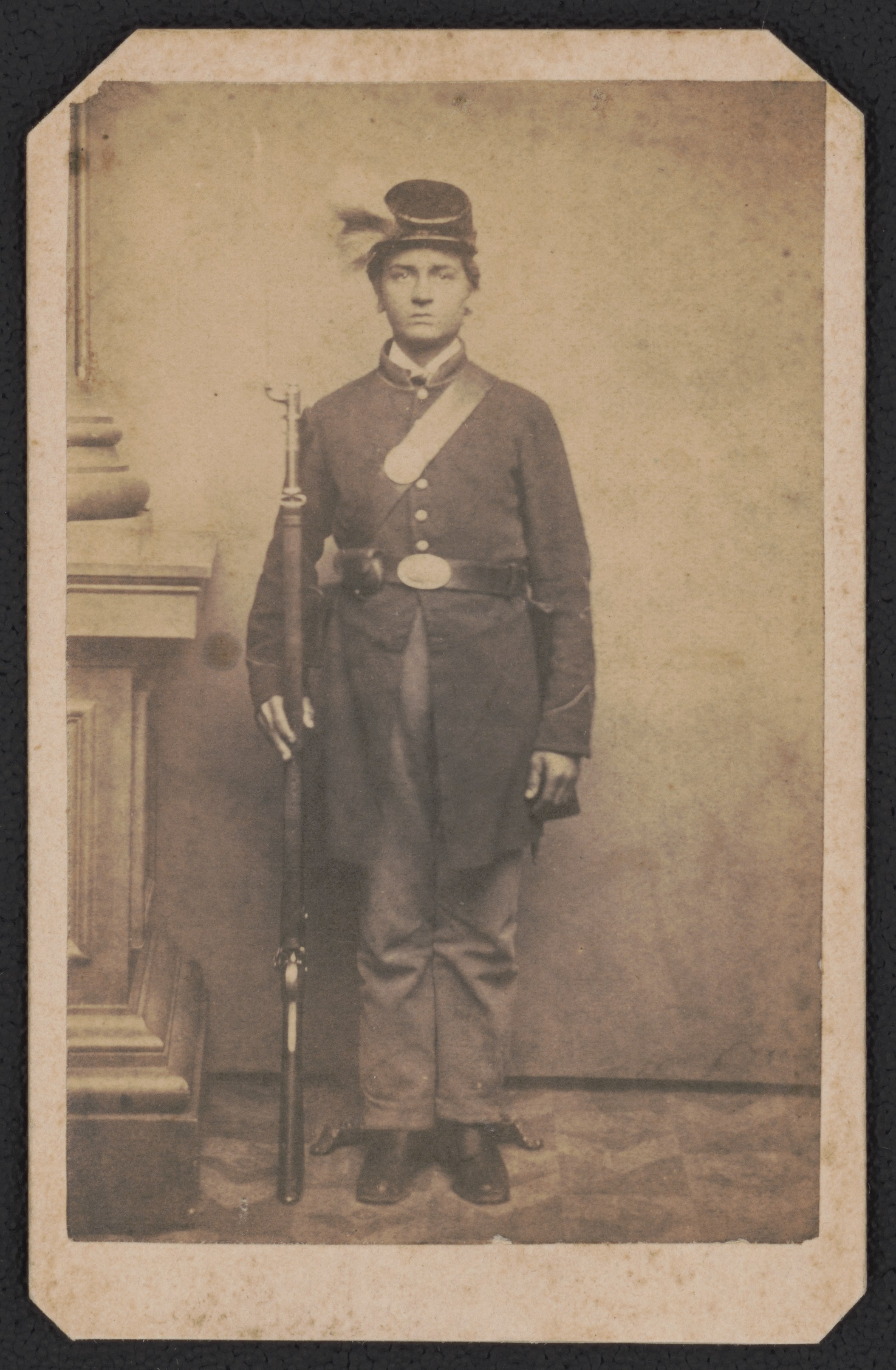 Title: Private Franklin W. Lehman of Co. C, 149th Pennsylvania Infantry Regiment ("Bucktails") and 18th U.S. Veteran Reserve Corps Infantry Regiment, in uniform with musket in hand and bucktail on hat] / Bell & Brother, photographers, 480 Pennsylvania Avenue, Washington, D.C Abstract/medium: 1 photograph : albumen print on card mount ; mount 10 x 7 cm (carte de visite format)